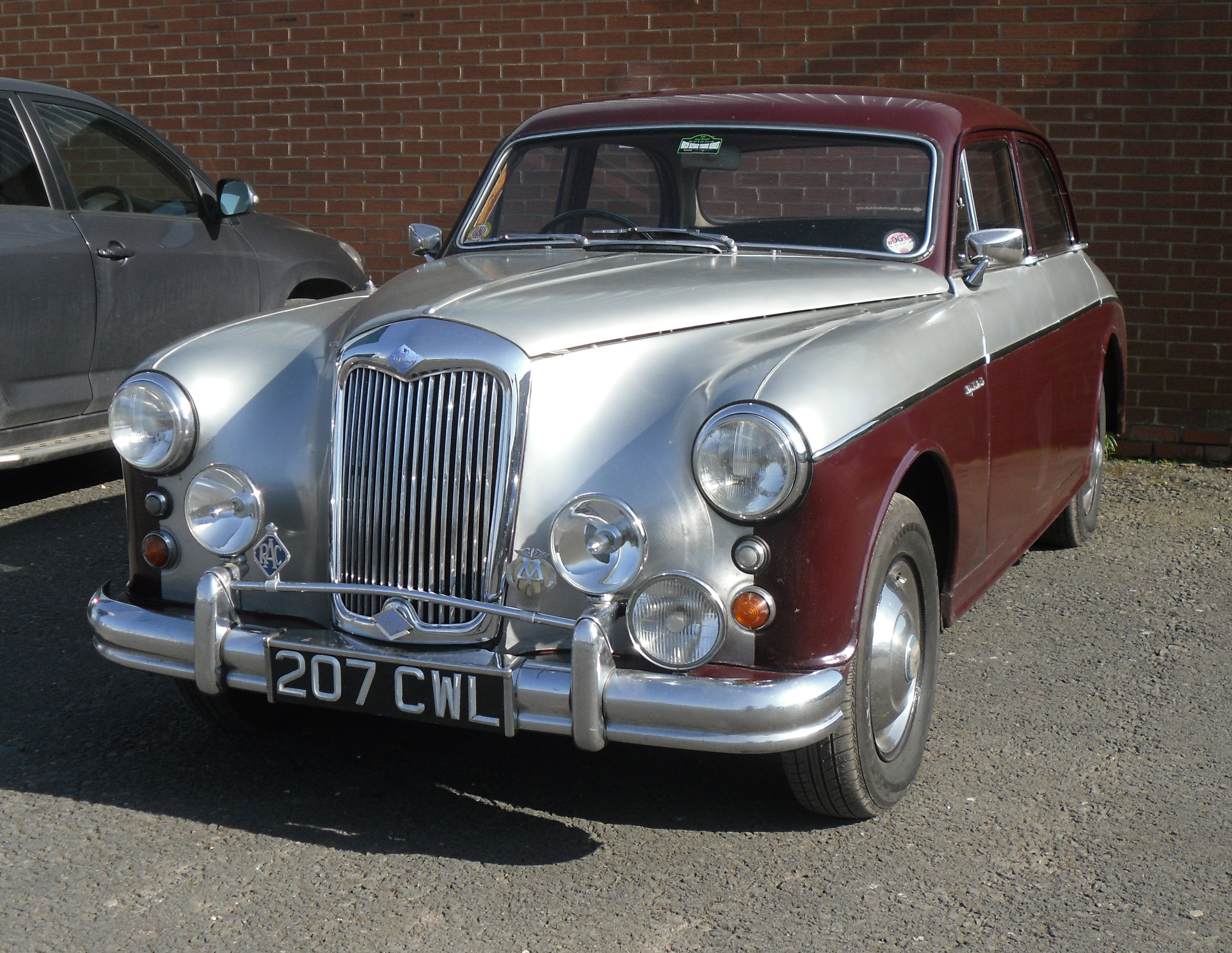 1957 Riley two-point-six (DVLA) first registered 26 September 1957, 2443cc at Donington Park